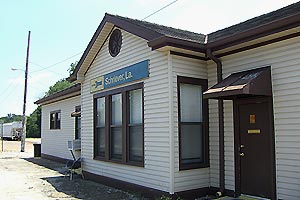 Schriever station visited in August 2008